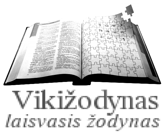 The logo for the Lithuanian Language Wiktionary.